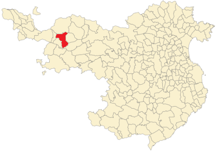 Ribas de freser